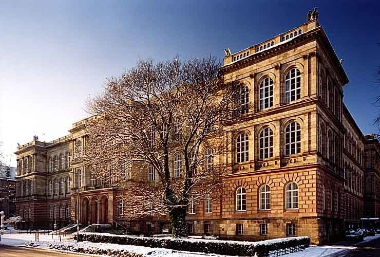 Main building of the RWTH Aachen (the former Polytechnic Institute of Aachen), view from south-east. The laying of the foundation stone took place the 15th May 1865.